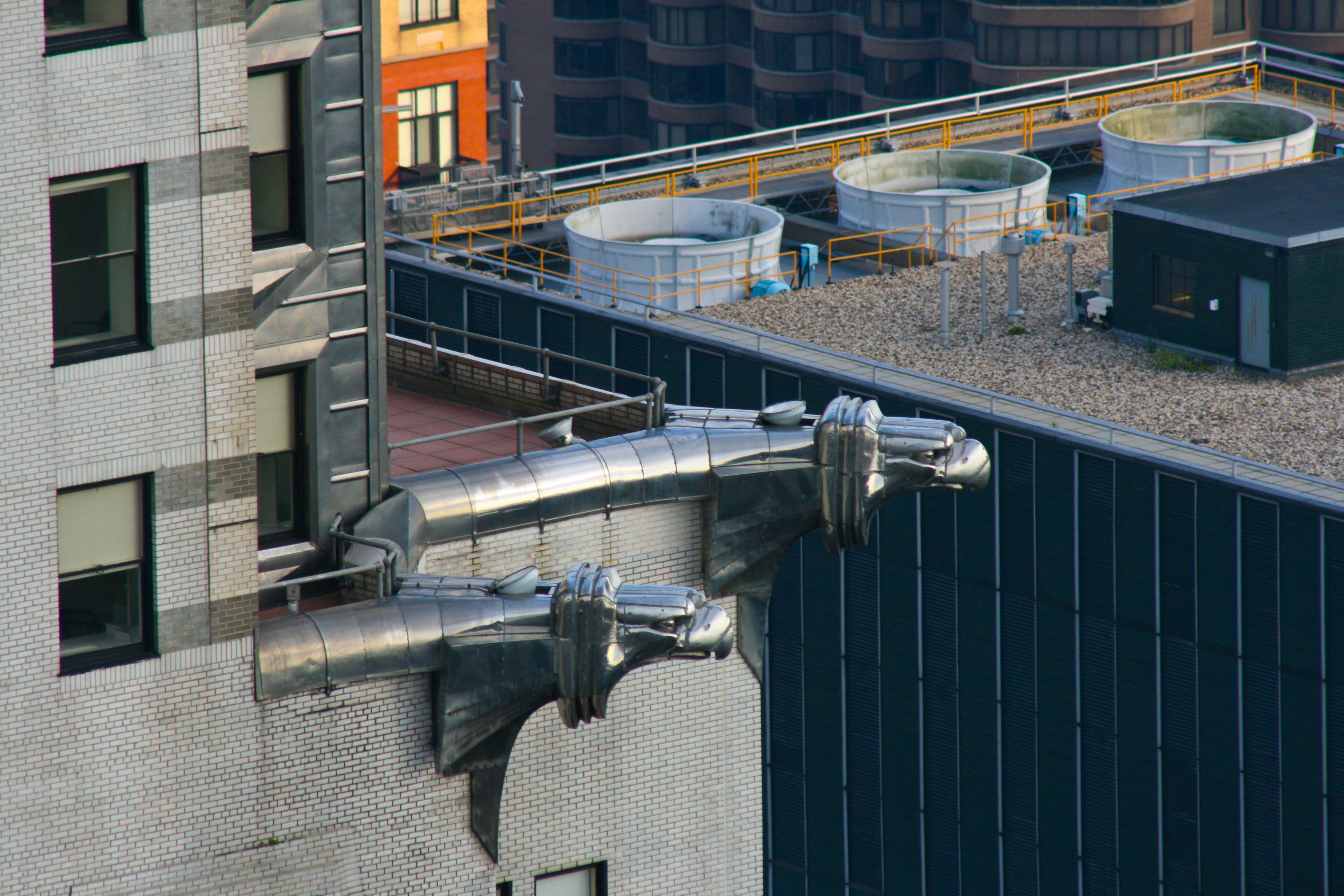 chrysler building eagle detail high resolution